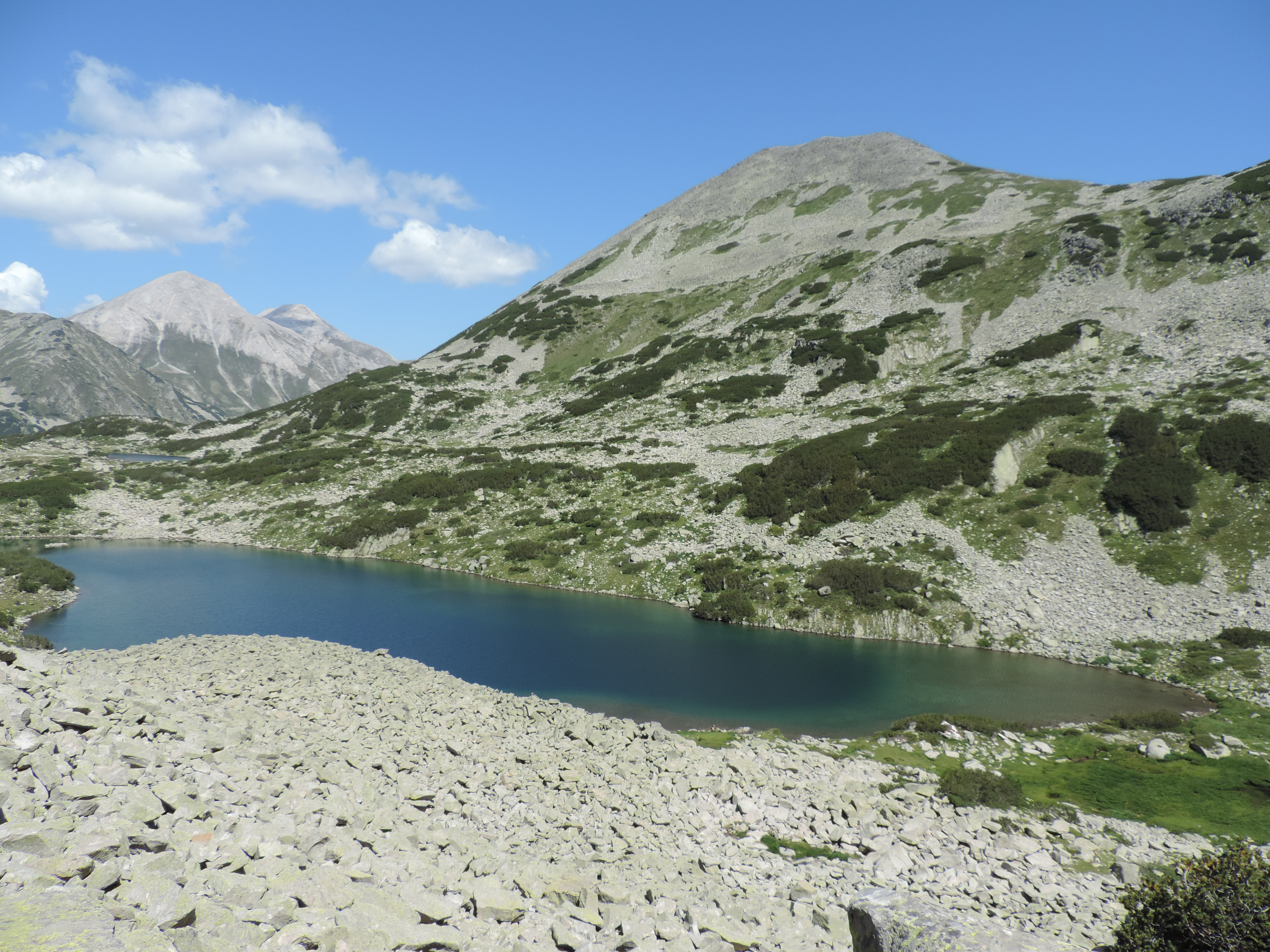 The Long lake, Pirin National Park, Bulgaria